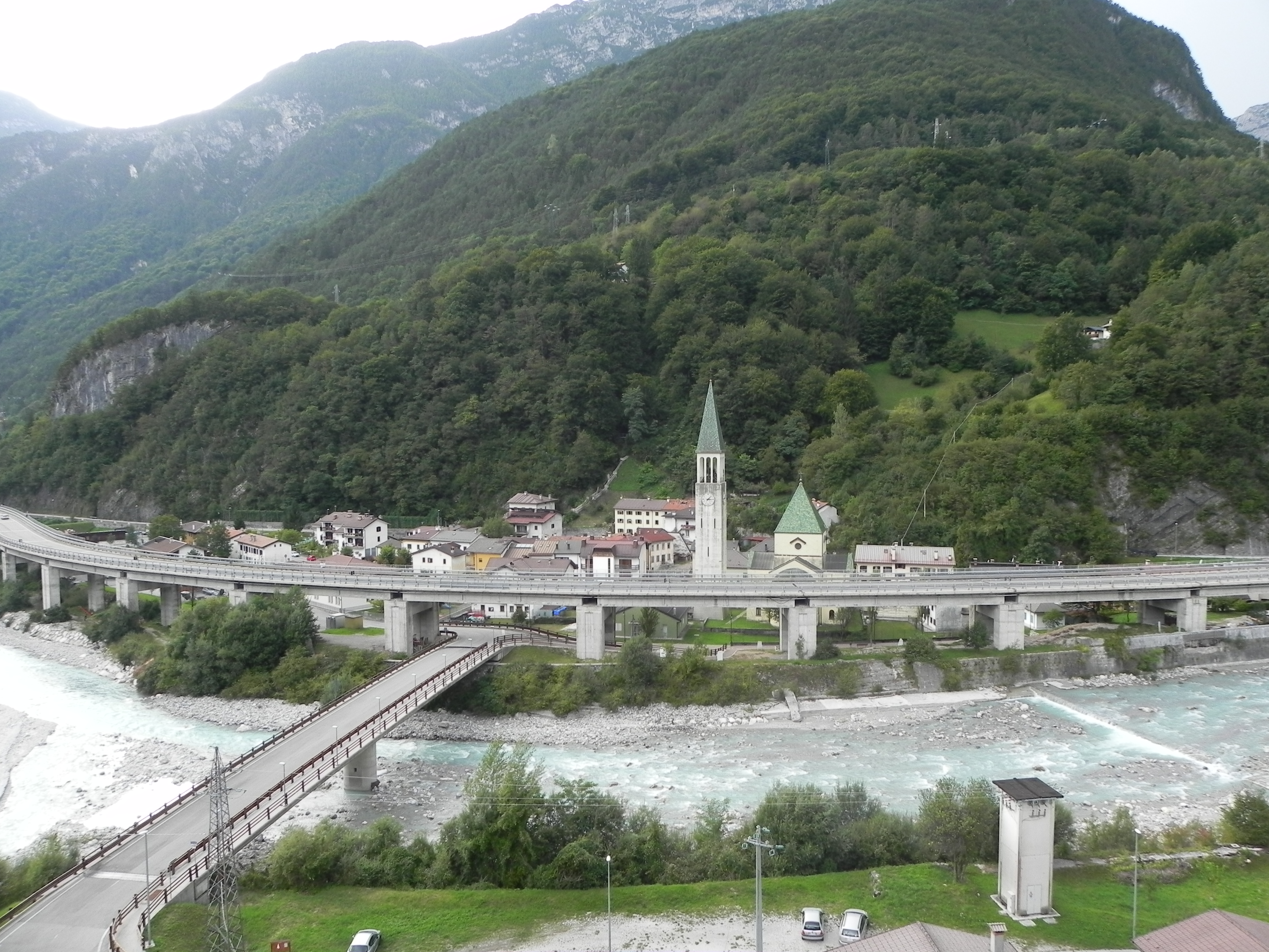 Town of Dogna, seen from the old Pontebbana railway.